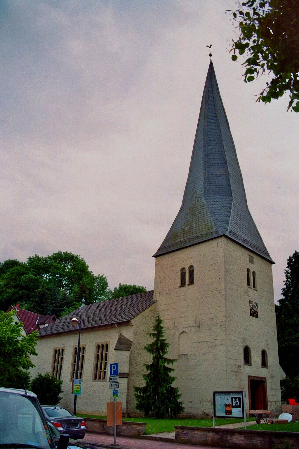 Lutheran church of Hausberge, Porta Westfalica-Hausberge, Kreis Minden-Lübbecke, North Rhine-Westphalia, Germany.